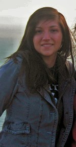 Cherish Parrish (Odawa-Ojibwe-Potawatomi) sixth generation black ash basket weaver, enrolled in the Match-e-be-nash-she-wish Band of Pottawatomi Indians of Michigan.